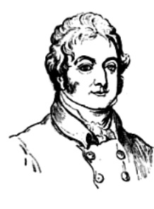 Thomas Anson (1767-1818), after T. Phillips, by 1886. Member of Parliament and husband of Anne Margaret Coke Anson